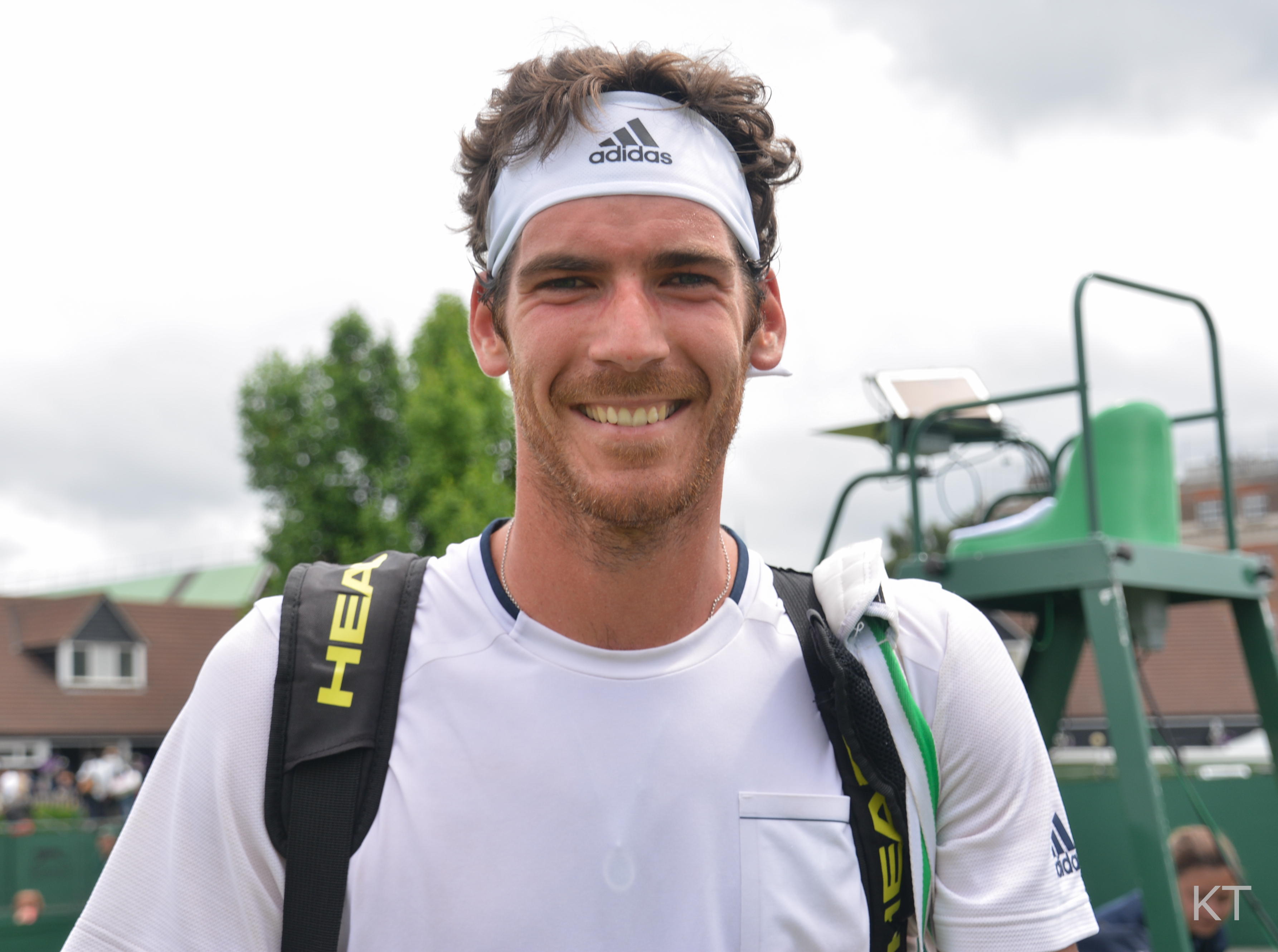 Through to the final round. Wimbledon qualifying 2016